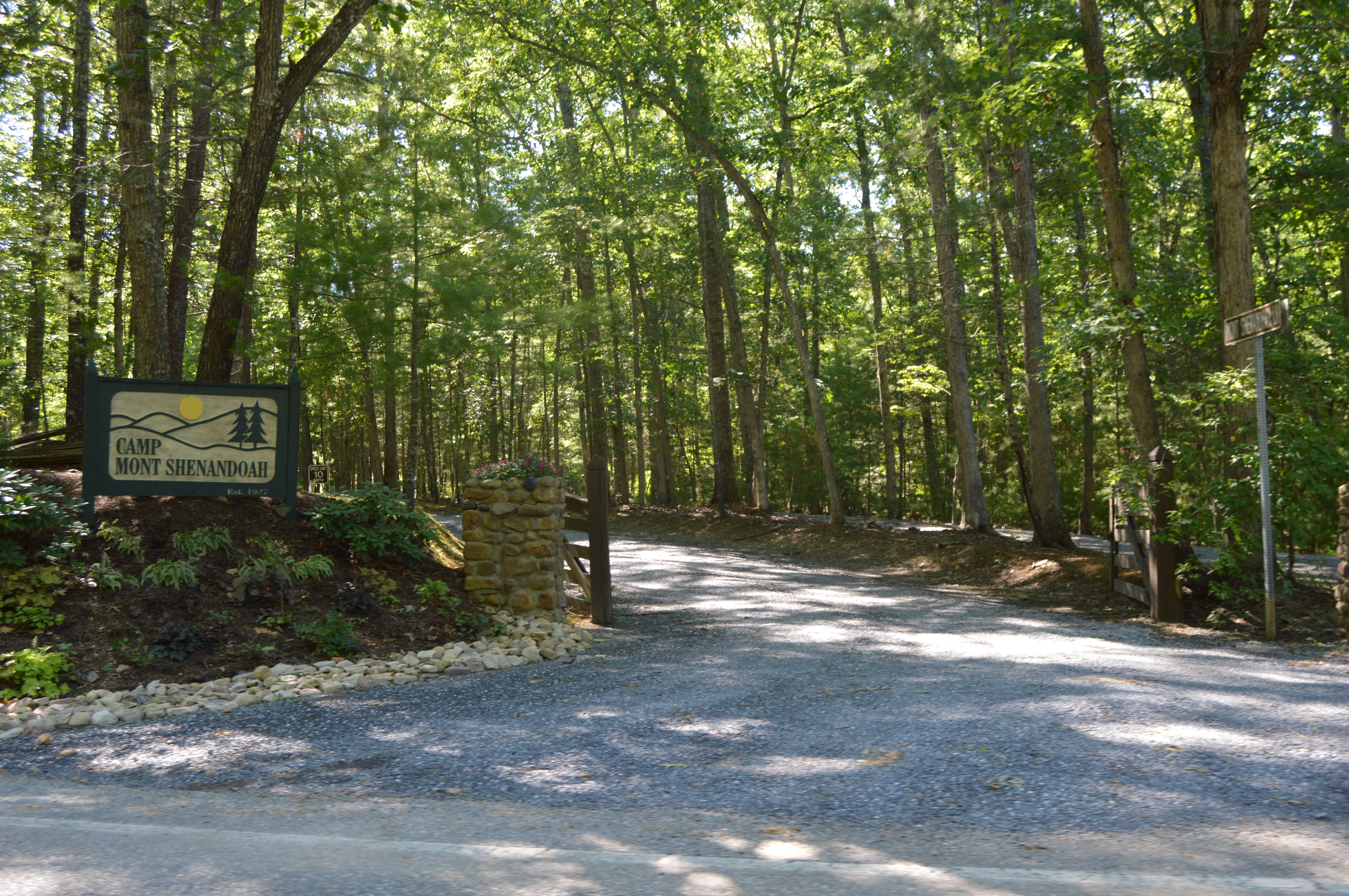 Main entrance to Camp Mont Shenandoah, located on State Route 42 just southwest of Millboro Springs in Bath County, Virginia, United States. The camp property is listed on the National Register of Historic Places.